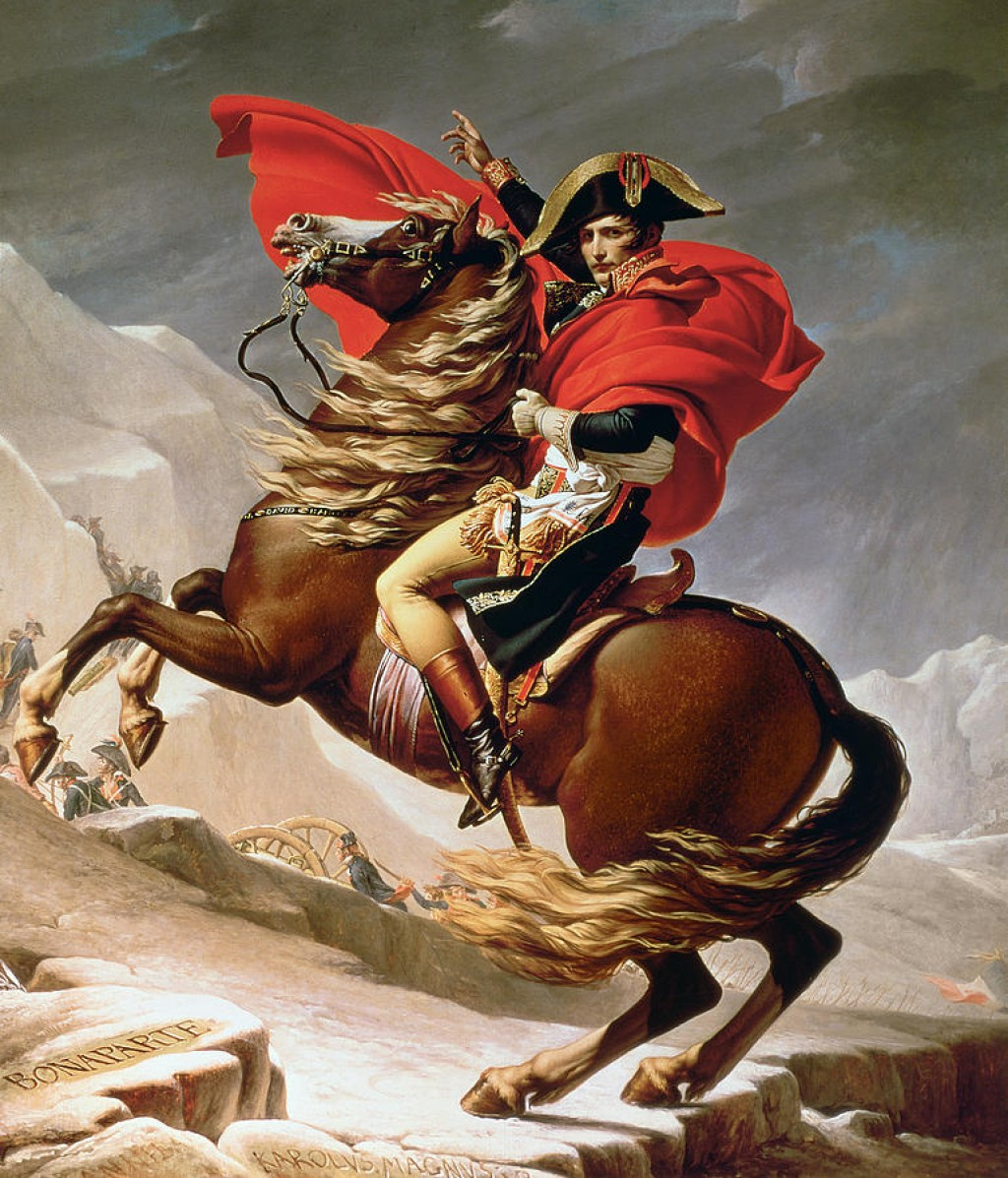 Napoleon in a red cloak mounted on a chestnut horse. The tack is simpler than in the original version, lacking the martingale, and the girth is grey-blue. There are traces of snow on the ground. Napoleon's features are sunken with the faint hint of a smile.